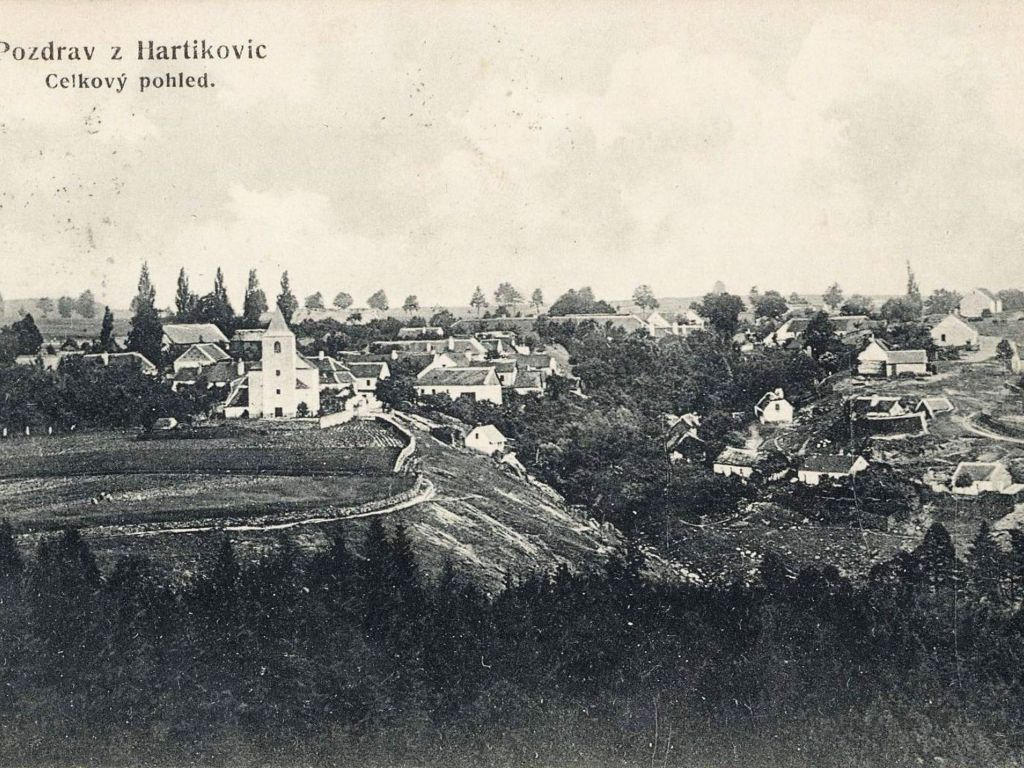 Overview of Hartvíkovice in 1908, Třebíč District.